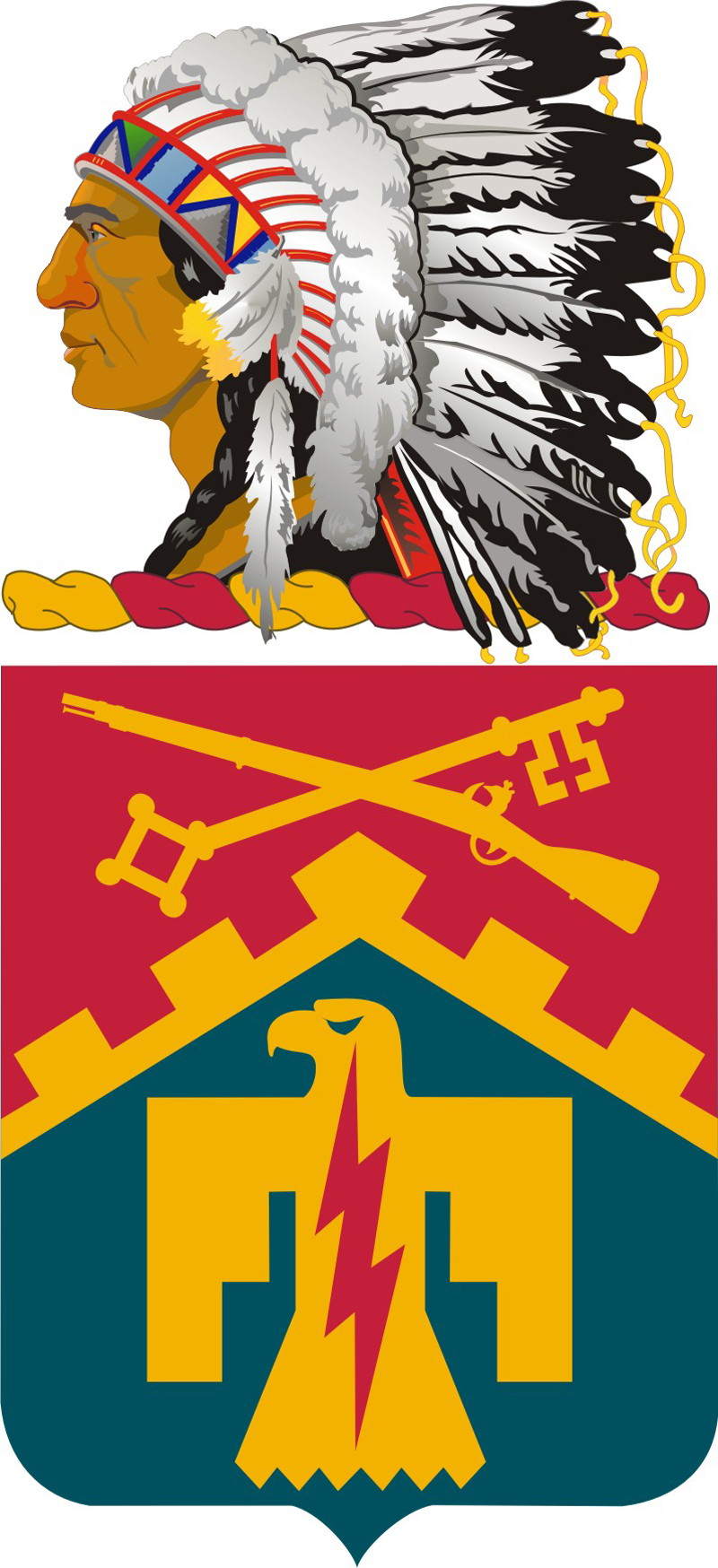 45th BSTB coat of arms